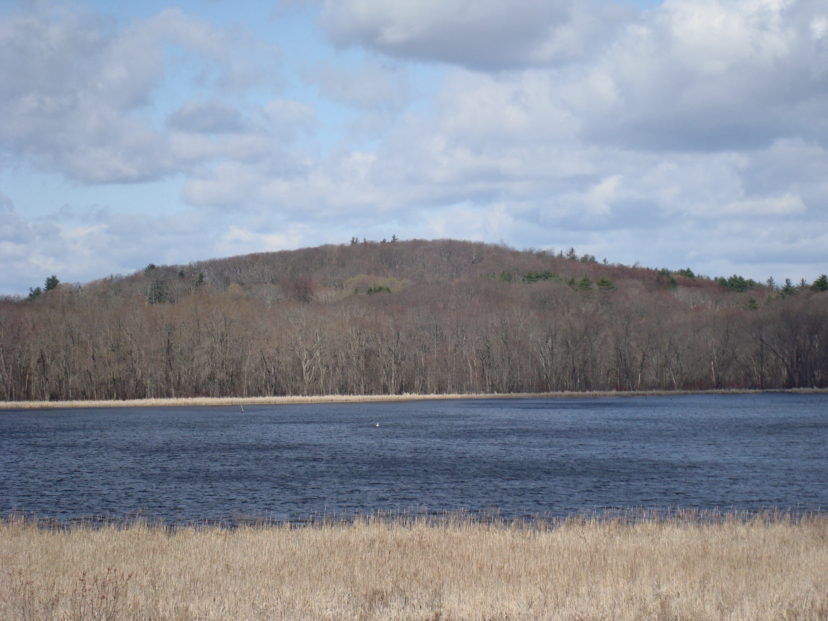 View of Punkatasset Hill from Great Meadows National Wildlife Refuge